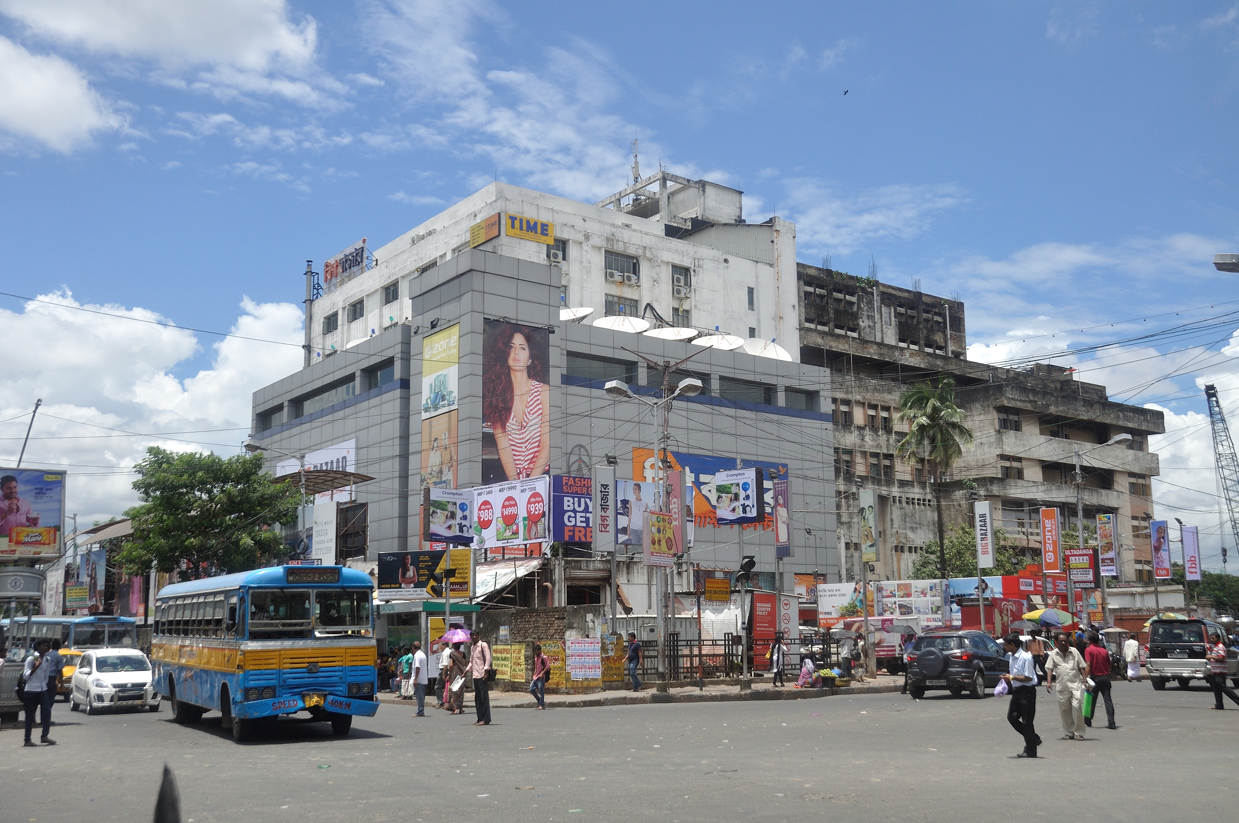 Photographed in Kolkata.